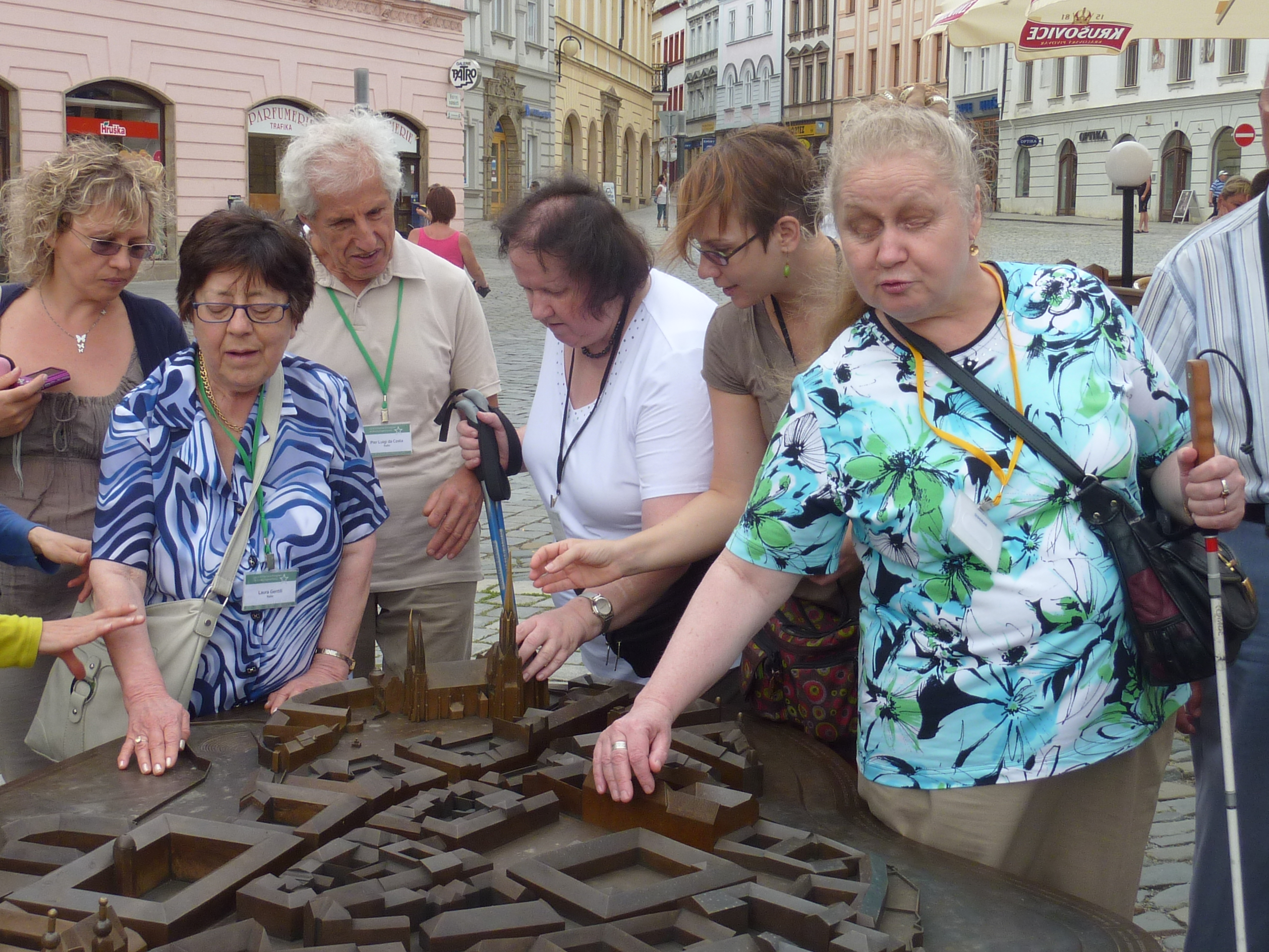 Participants of the 77th IKBE (International Congress of Blind Esperantists) in Olomouc (Czech Republic) in 2011 haptically explore a tridimensional model of the city center.